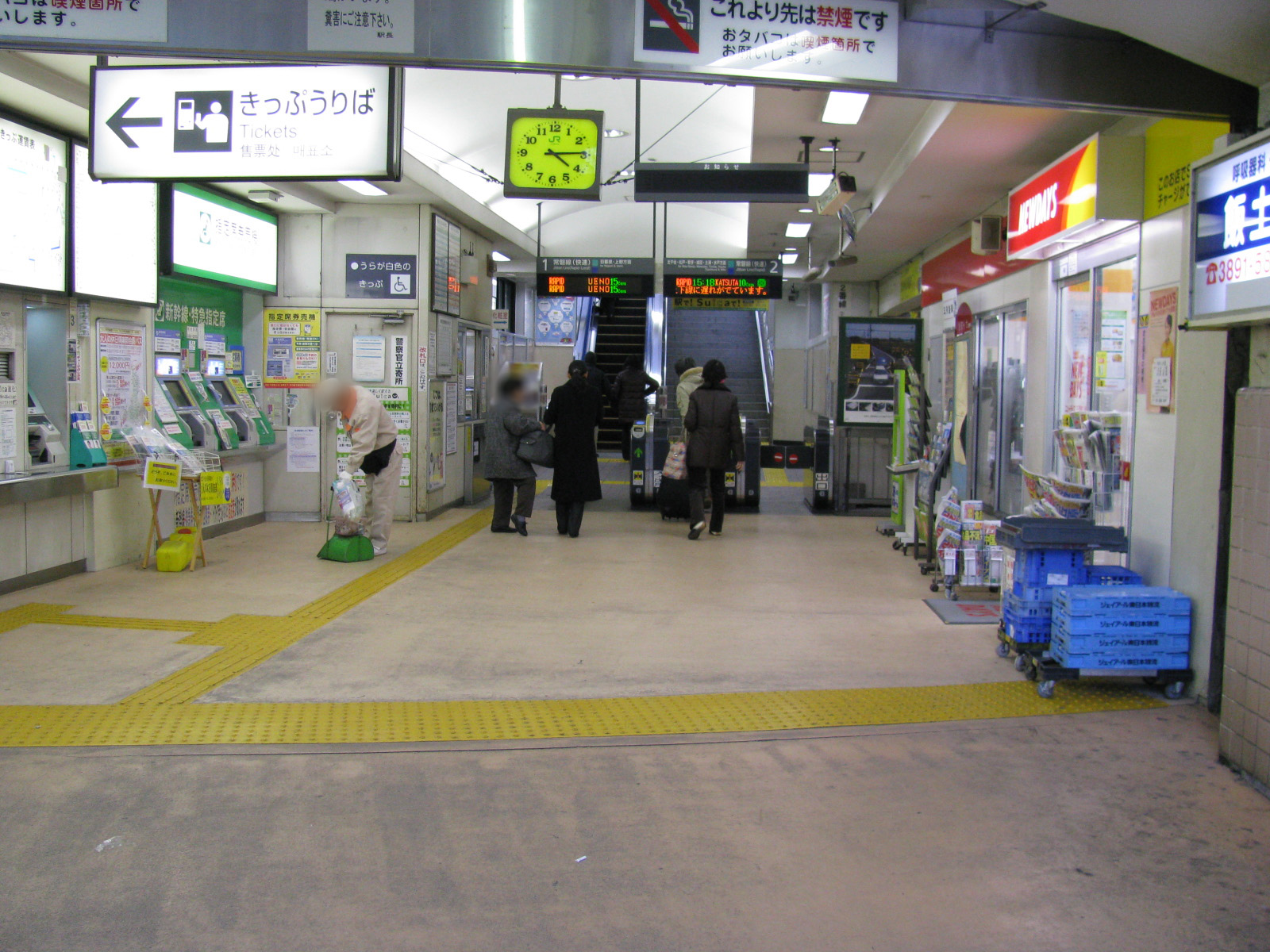 ticket barrier at Mikawashima station